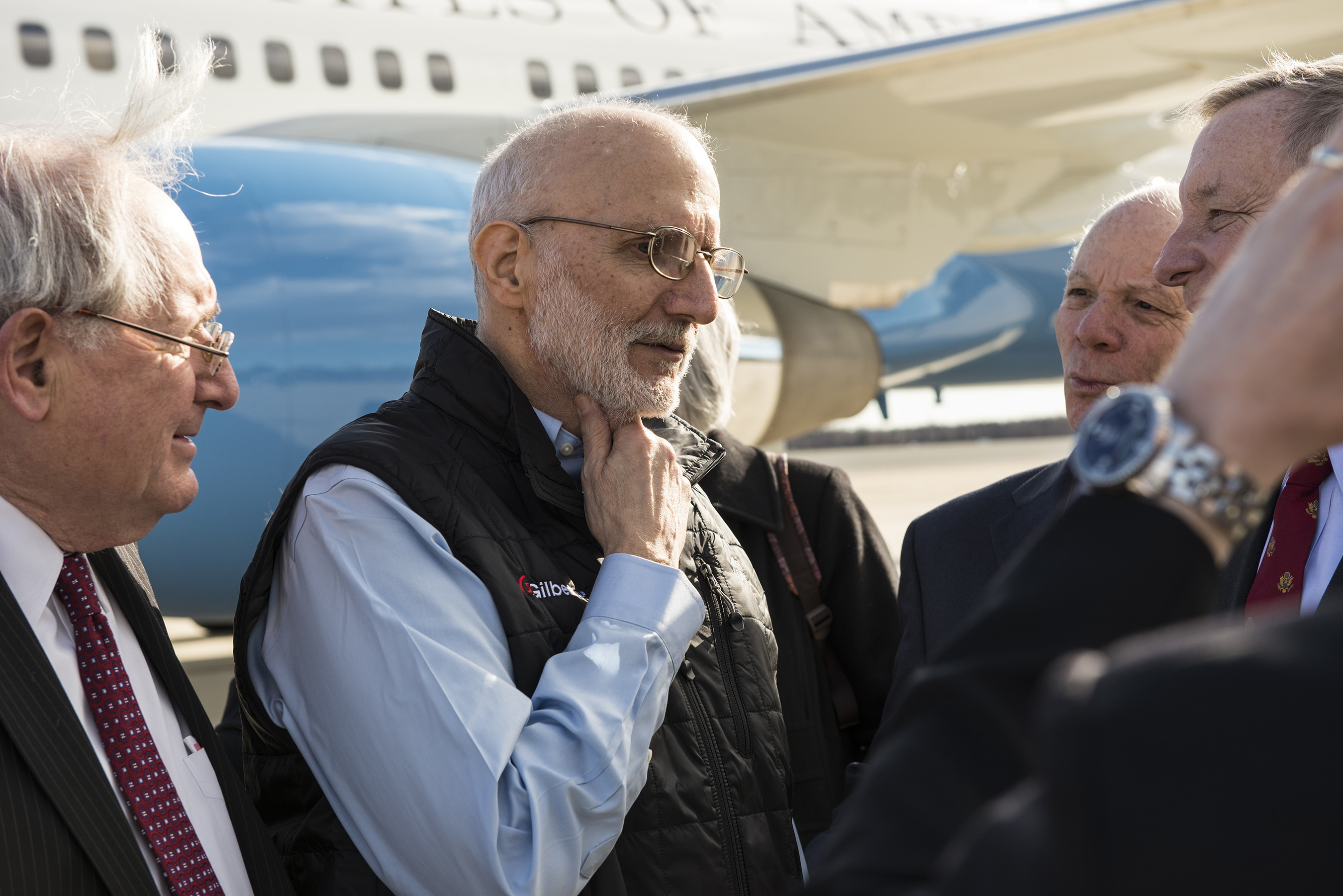 Alan Gross embraces an entourage of family and friends who were awaiting his return from five years of captivity in Cuba to Joint Base Andrews, Md., Dec. 17, 2014. Gross arrived with his wife and others, and was soon greeted by Secretary of State John Kerry. (U.S. Air Force photo by Master Sgt. Kevin Wallace/RELEASED with consent of Jill Zuckman)